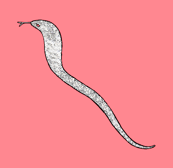 Pal Lahara State Flag This work is in the public domain in India because its term of copyright has expired. The Indian Copyright Act applies in India, to works first published in India. According to The Indian Copyright Act, 1957 (Chapter V Section 25), Anonymous works, photographs, cinematographic works, sound recordings, government works, and works of corporate authorship or of international organizations enter the public domain 60 years after the date on which they were first published, counted from the beginning of the following calendar year (ie. as of 2016, works published prior to 1 January 1956 are considered public domain). Posthumous works (other than those above) enter the public domain after 60 years from publication date. Any other kind of work enters the public domain 60 years after the author's death. Text of laws, judicial opinions, and other government reports are free from copyright. Photographs created before 1958 are in the public domain 50 years after creation, as per the Copyright Act 1911. This file may not be in the public domain outside India. The creator and year of publication are essential information and must be provided. See Wikipedia:Public domain and Wikipedia:Copyrights for more details. This image shows a flag, a coat of arms, a seal or some other official insignia. The use of such symbols is restricted in many countries. These restrictions are independent of the copyright status.